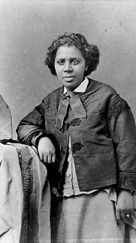 Edmonia Lewis, ca.1870s Photographer: Henry Rocher Reproduction from original 3 5/8" x 2 1/16" albumen silver print National Portrait Gallery, Smithsonian Institution Web